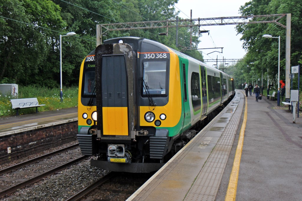 London Midland Class 350, 350368, Kidsgrove railway station